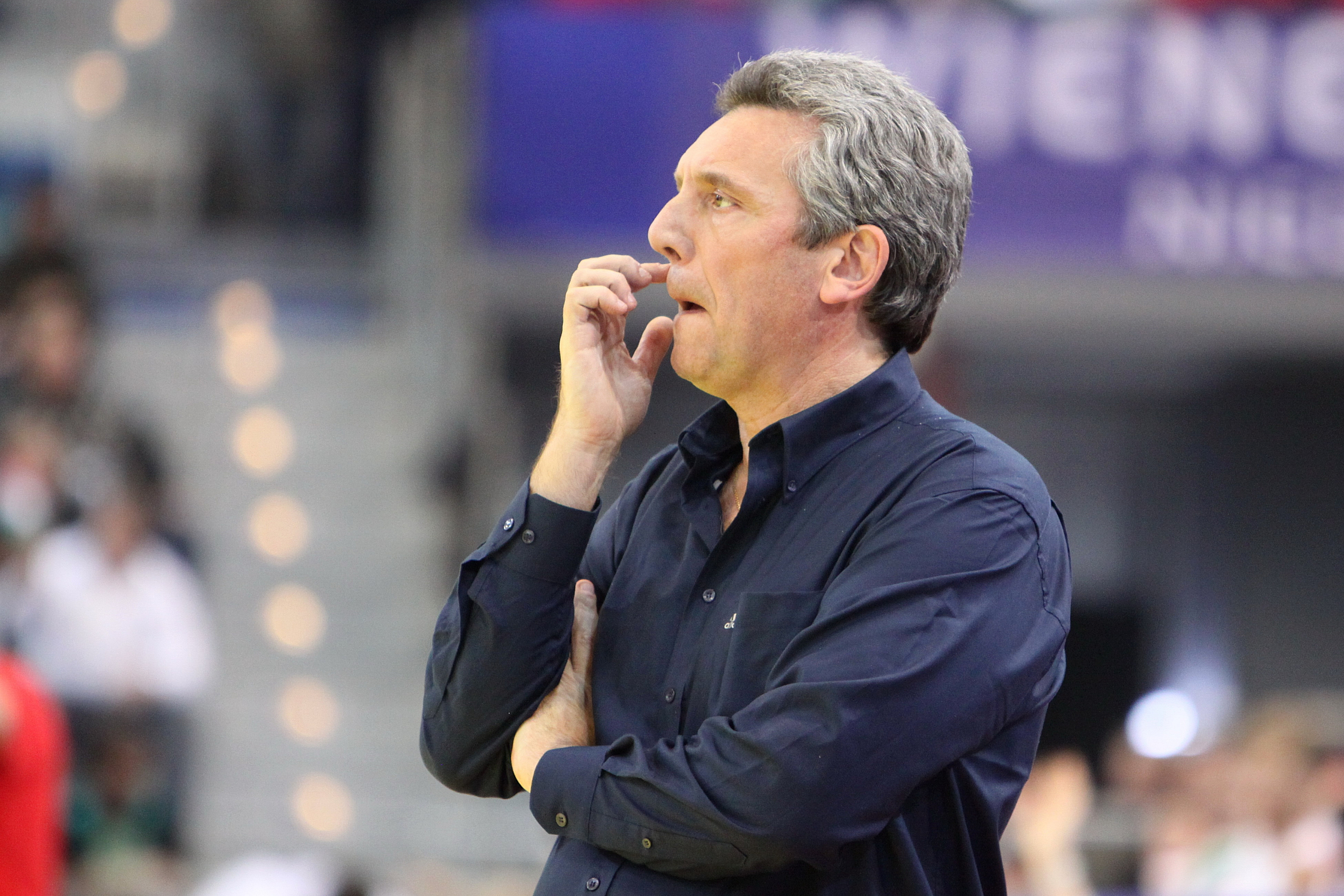 Claude Onesta (Teamchef), France national handball team